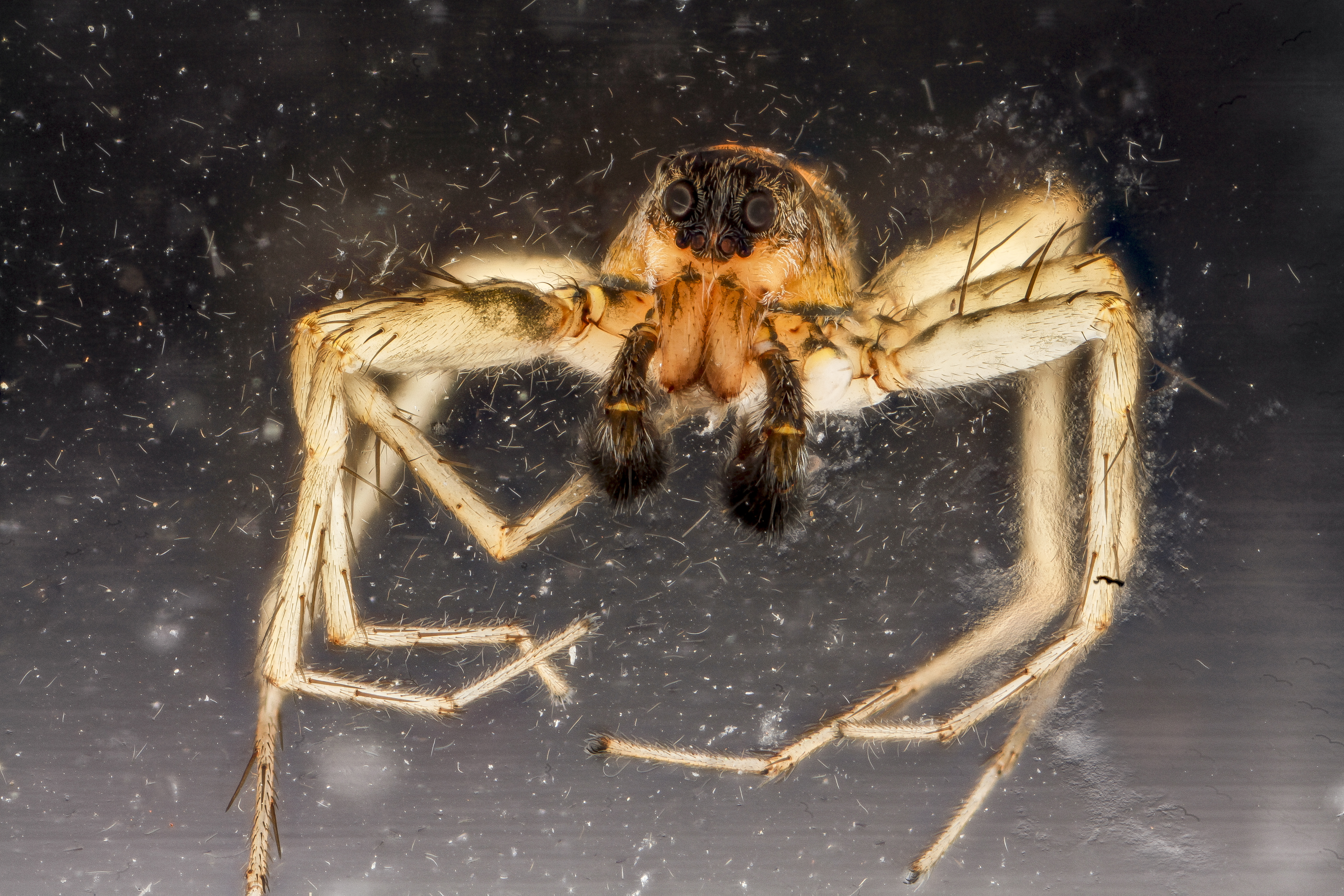 Tiny 3mm Spider, caught 10/9/2012, placed in hand sanitizer in a cuvette. Note cloud of hairs, might have to drag the specimen to a new location in HS to remove? Replaced the white paper under the specimen with Black and that decreased the highlight burnout on the lightcolored legs.